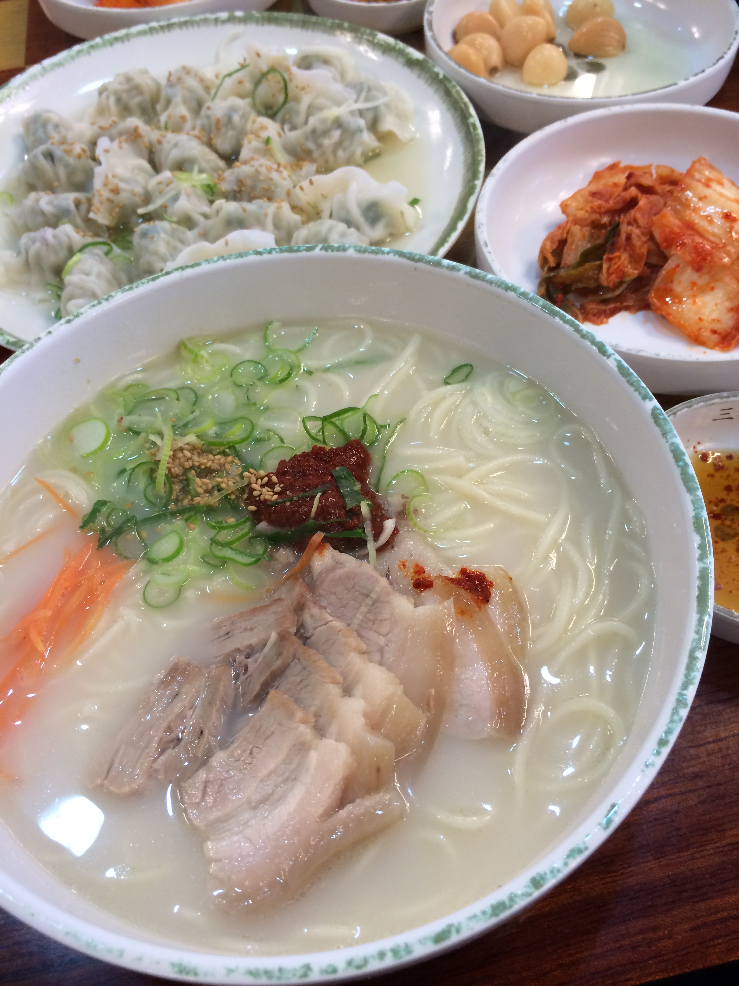 It is gogi noodle(pork noodle) which is Jeju local food at Samdaehoegwan(삼대회관)